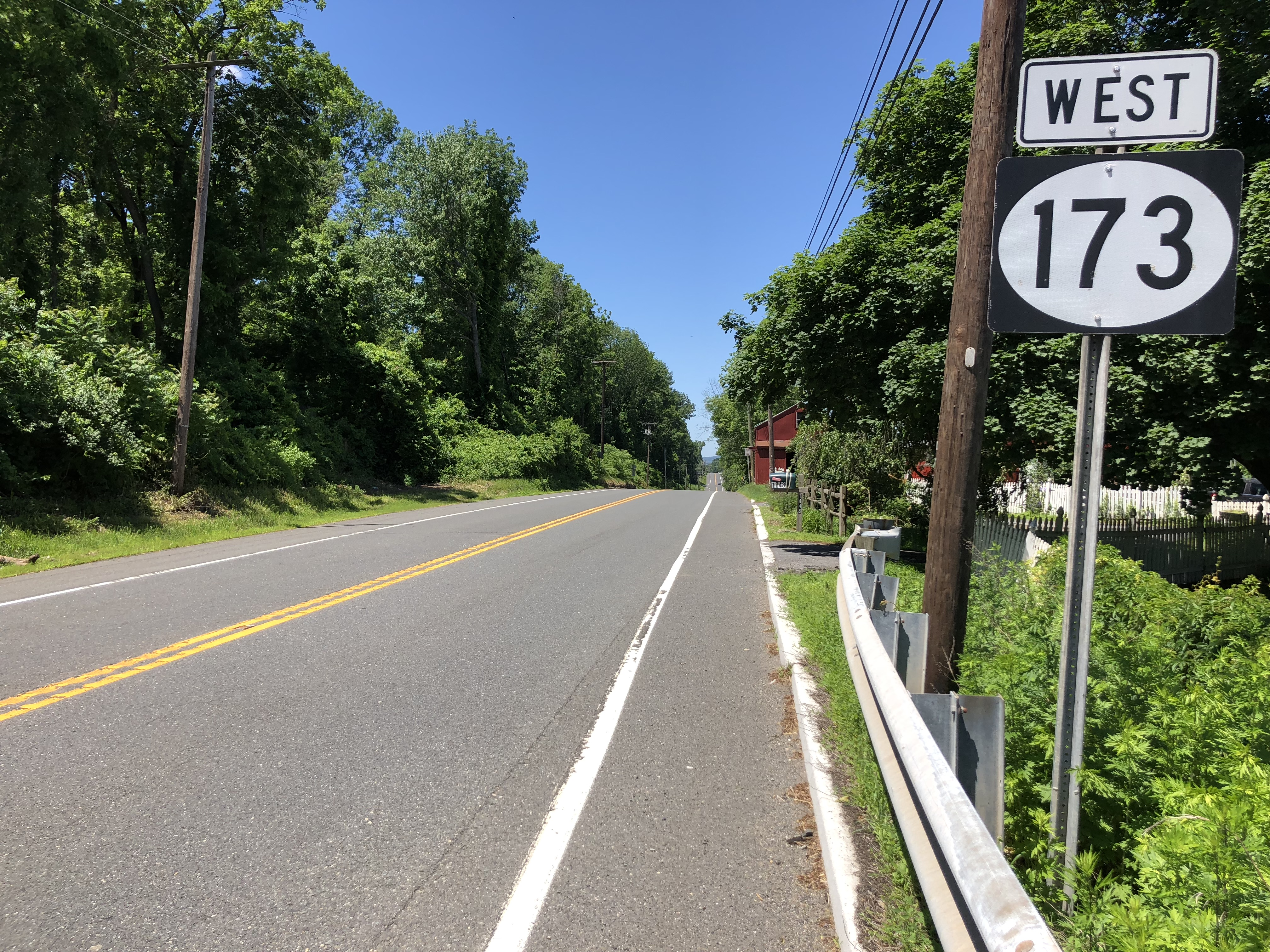 View west along New Jersey State Route 173 (Brunswick Pike) just west of Hunterdon County Route 643 (West Portal-Asbury Road) in Bethlehem Township, Hunterdon County, New Jersey